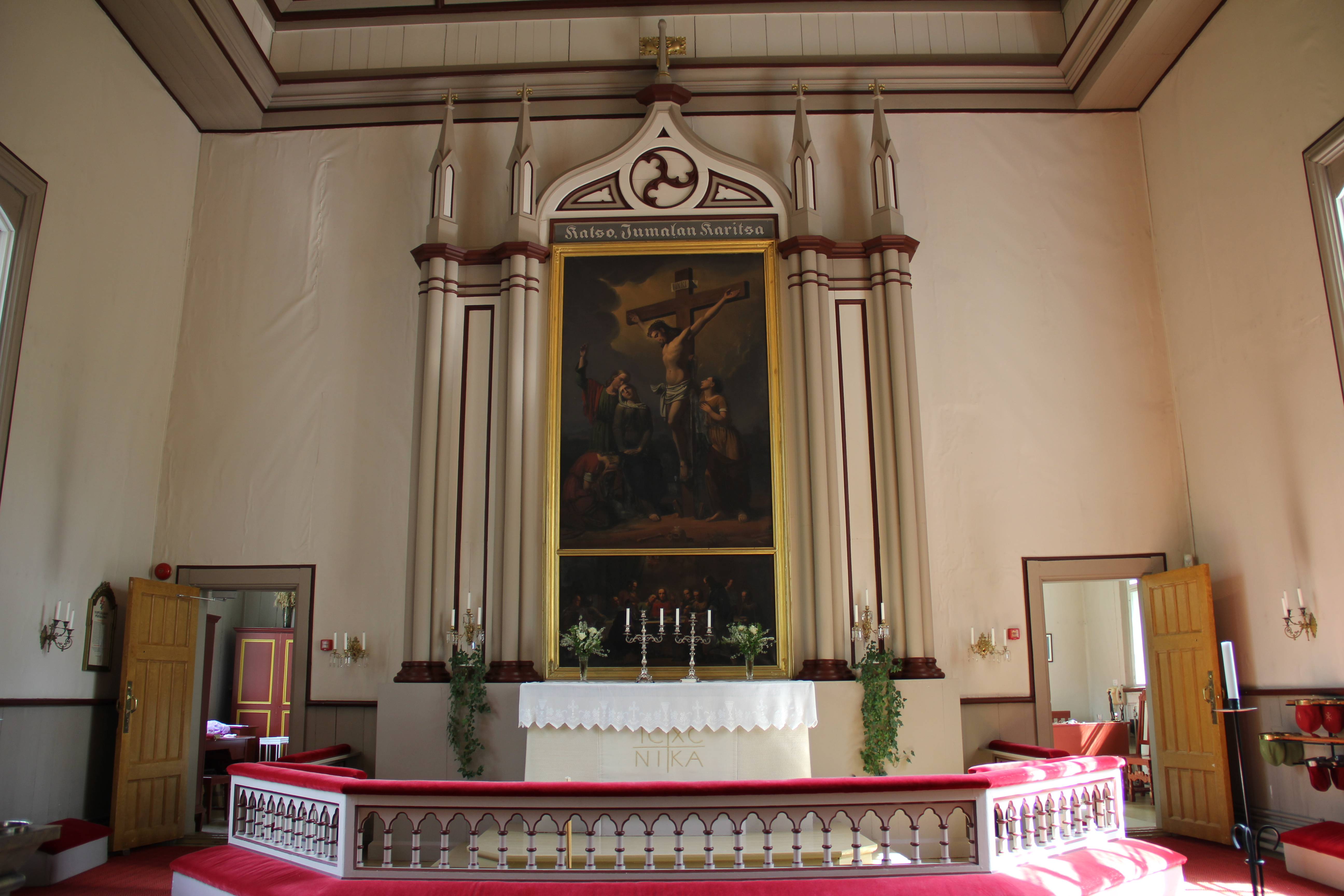 Interior of Pöytyä church, Pöytyä, Finland. Completed in 1793, designed by swedish architect Carl Christoffer Gjörwell Jr and built by Mikael Piimänen. Altar. Altar painting by Johan Zacharias Blackstadius (1848).